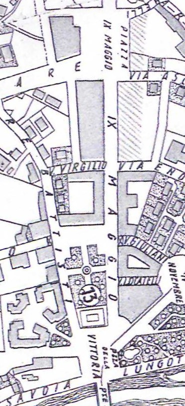 Bozen-Bolzano's street map from 1940 detailing the Corso della Libertà, then IX Maggio